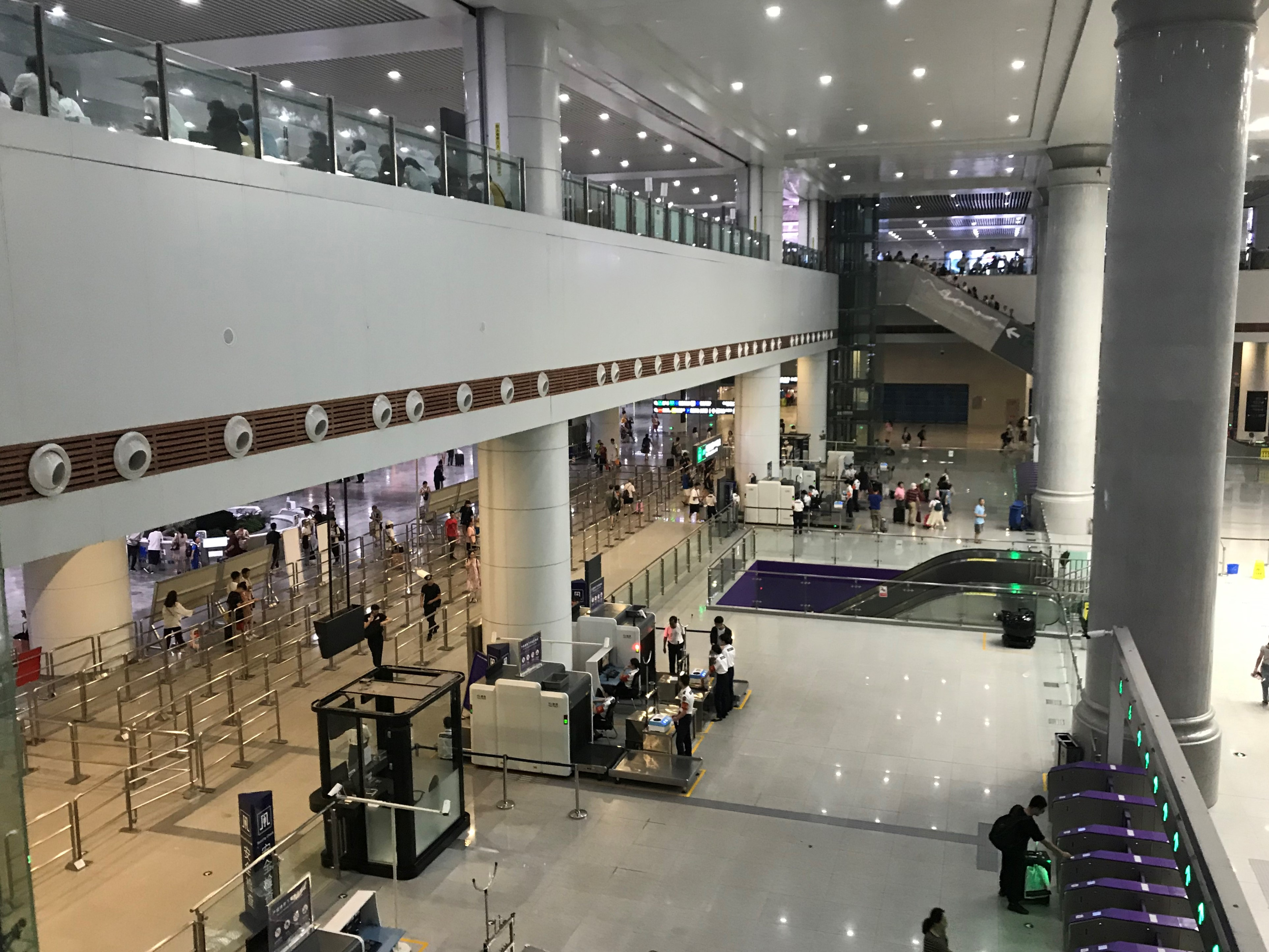 Can see the security